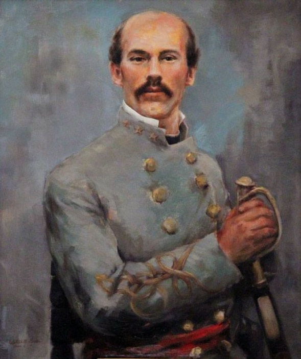 Colonel Charles Courtenay Tew, 1827-1862, posed with his sword, a parting gift from The Arsenal cadets.